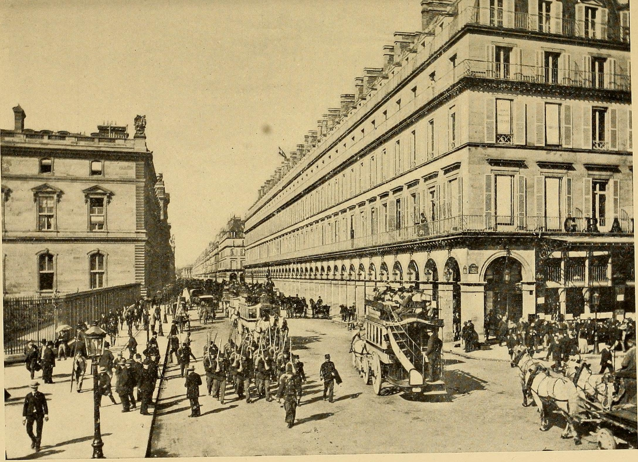 Title: Paris as seen and described by famous writers .. Year: 1900 (1900s) Authors: Singleton, Esther, (from old catalog) ed. and tr Subjects: Publisher: New York, Dodd, Mead & co. Text Appearing Before Image: propriated to pay for the soup of the blind.In 1779, the Cardinal de Rohan, grand-almoner of France,transferred them to the Faubourg Saint-Antoine, and uponthe very site of the hospice opened two streets, one of whichtook the name of Rohati^ and the other ^inze-Vingts, What do I hear, what is this tumult, what are these cries,these flames starting from the windows ? Men in armsthrow themselves from the houses—it is the Rue de Rohanreceiving its baptism of blood, as it received its baptism offeudality from the hands of the cardinal. Who are thesetwo men with fiery eyes, bristling moustaches, and lipsblackened with powder ? Their clothes are in disorder—they enter a butchers—a yelling crowd follows in theirtracks—it besieges the door—with loud cries it demandsthe heads of the fugitives. The door finally yieldsto their redoubled efforts. Two large beardless fellowscome to offer their services to the sovereign people. In amoment the shop is visited, the most ardent searches lead Text Appearing After Image: '